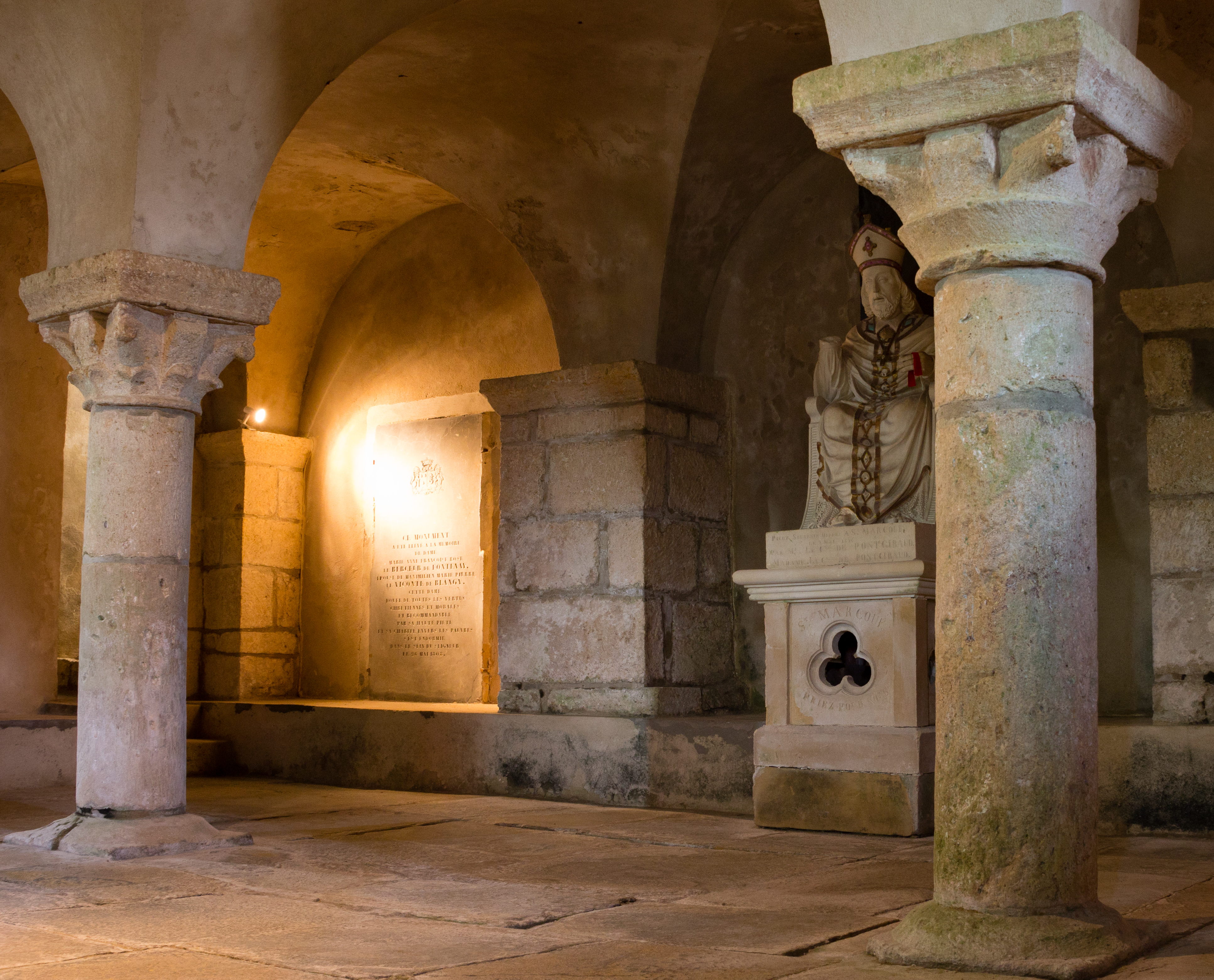 Crypt of the church of St. Marcouf in Saint-Marcouf (Manche, France). The crypt is half buried under the apse. An effigy of St. Marcouf thrones at the base of the west wall.